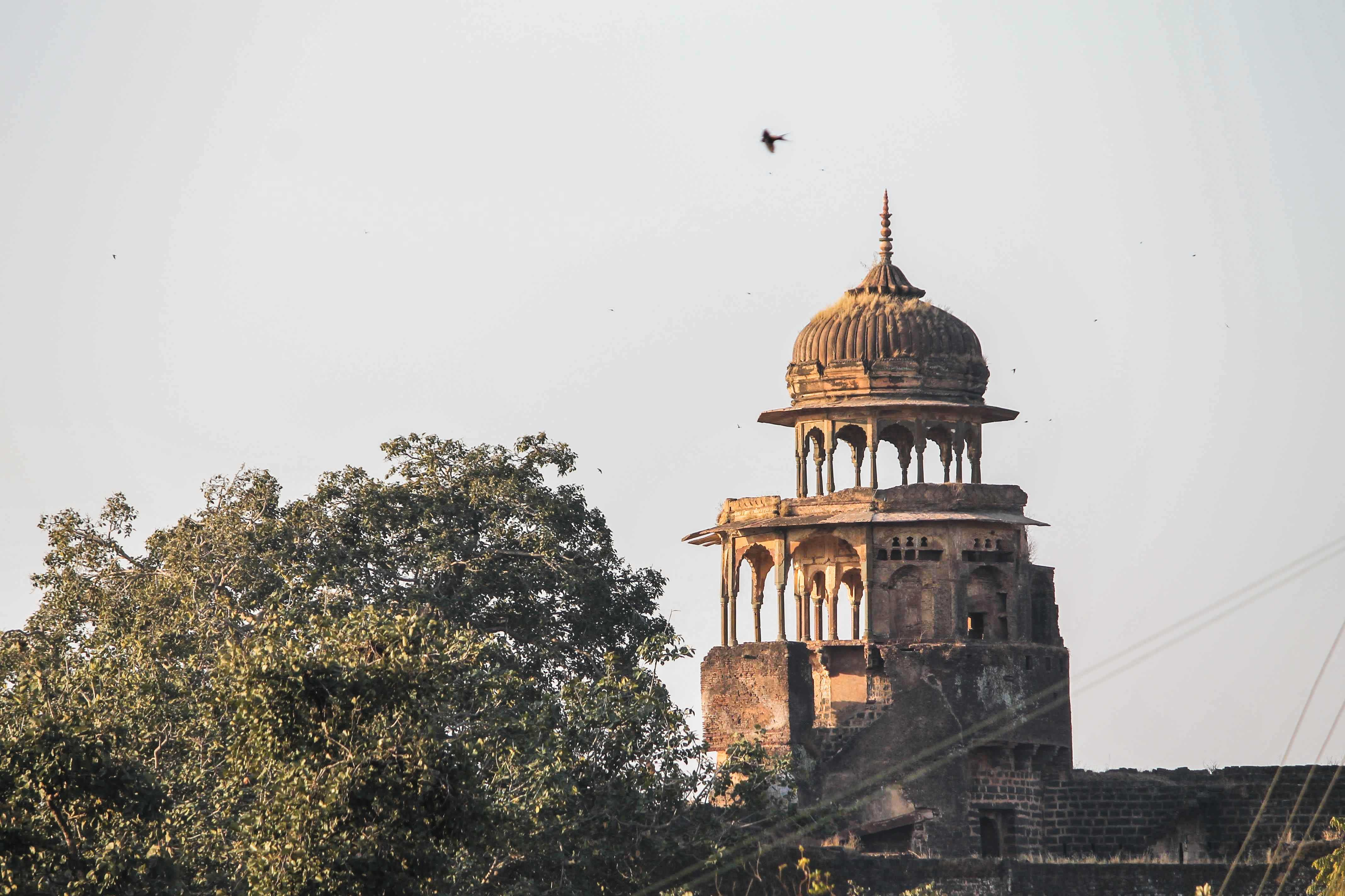 Feel the fort (Bajrangarh Fort - Guna)...